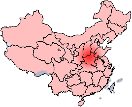 Concept map of Chinese Central Plain.